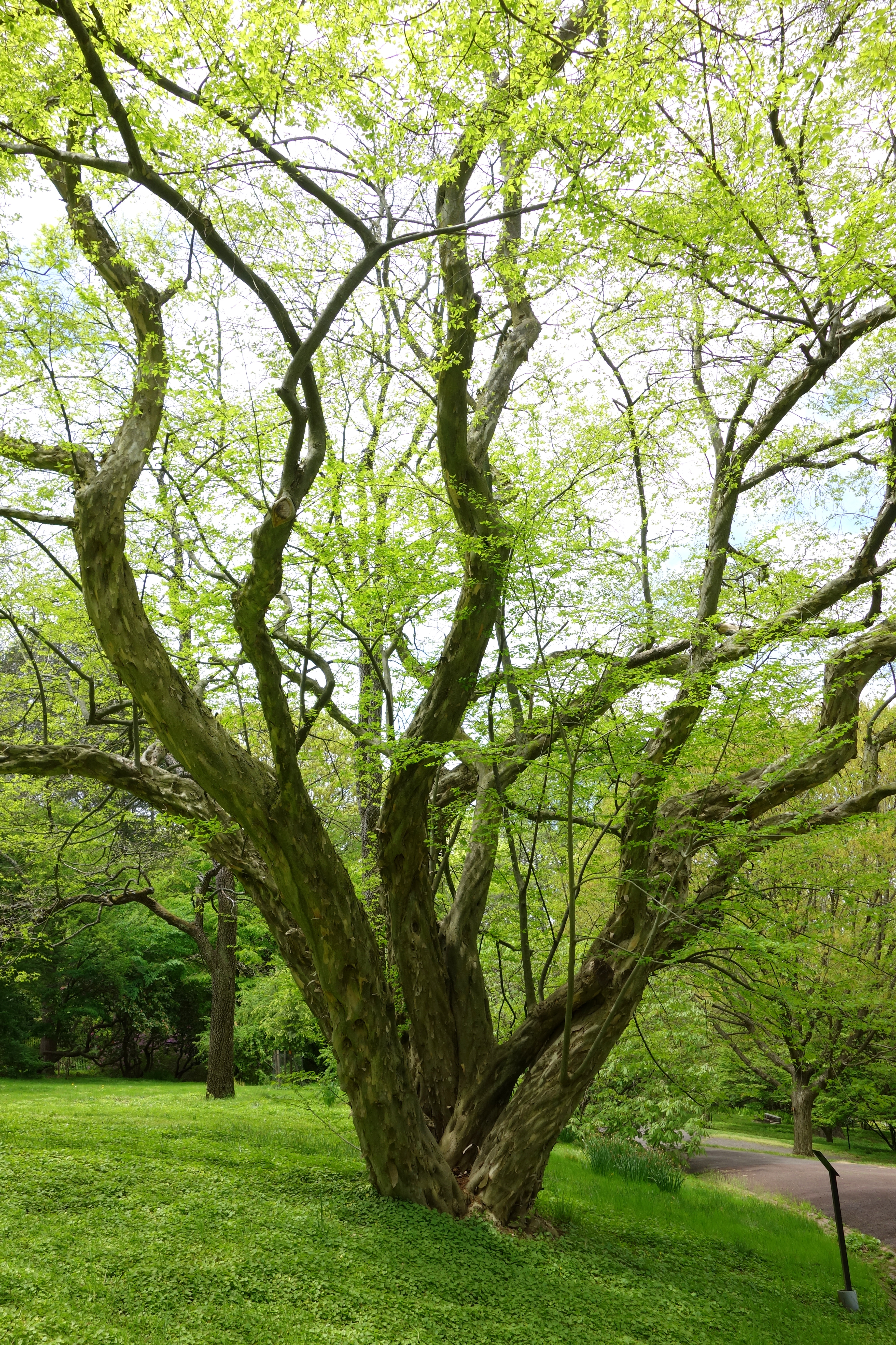 Botanical specimen in the Morris Arboretum, 100 East Northwestern Avenue, Chestnut Hill, Philadelphia, Pennsylvania, USA.